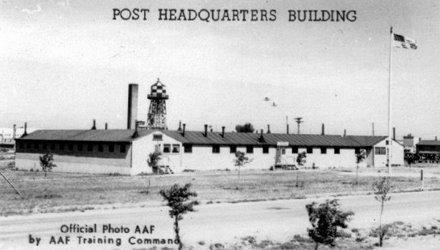 Headquarters Building, Dodge City AAF, Kansas